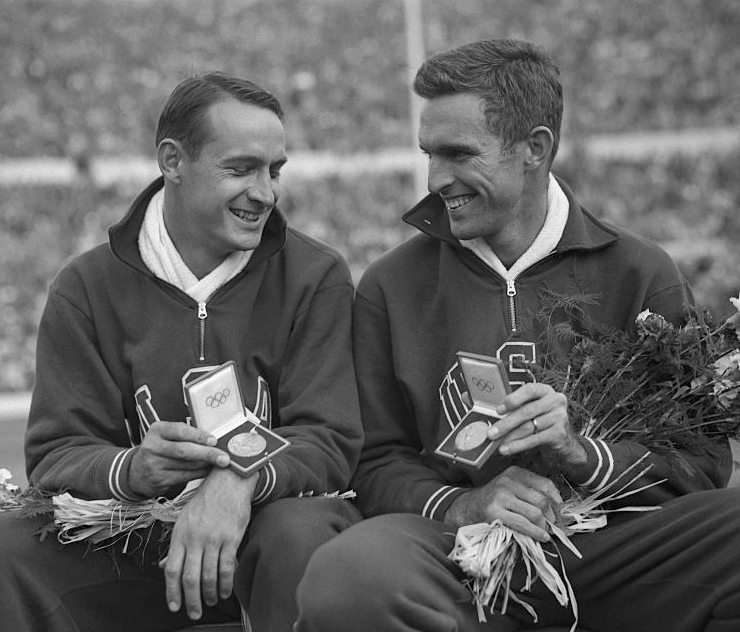 1952 Press Photo Walt Davis and Lt. Ken Wiesner with Olympic Medals High Jump